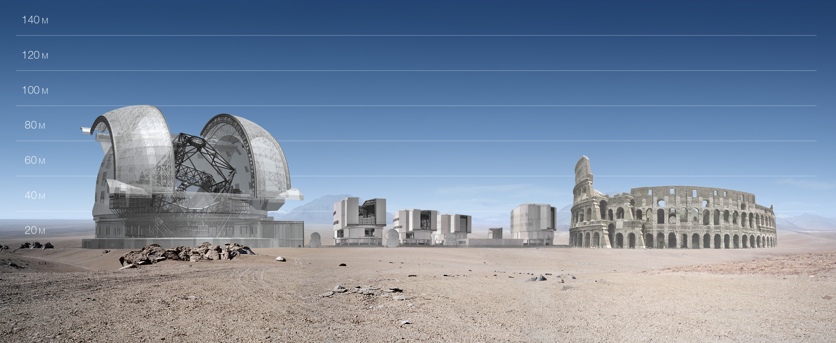 After years of thorough site testing, Cerro Armazones is the chosen site for the construction of the European Extremely Large Telescope (E-ELT). In the top of this mountain, a gigantic dome, Present and future observatories compared to a marvel from the past. The E-ELT dome will be 100 metres in diameter, about the size of the Colosseum in Rome, but atop a 3000-metre mountaintop. For comparison, each of the four VLT unit telescopes are 25 metres high, about the size of an eight-storey building. This picture is based on a preliminary design for the E-ELT.